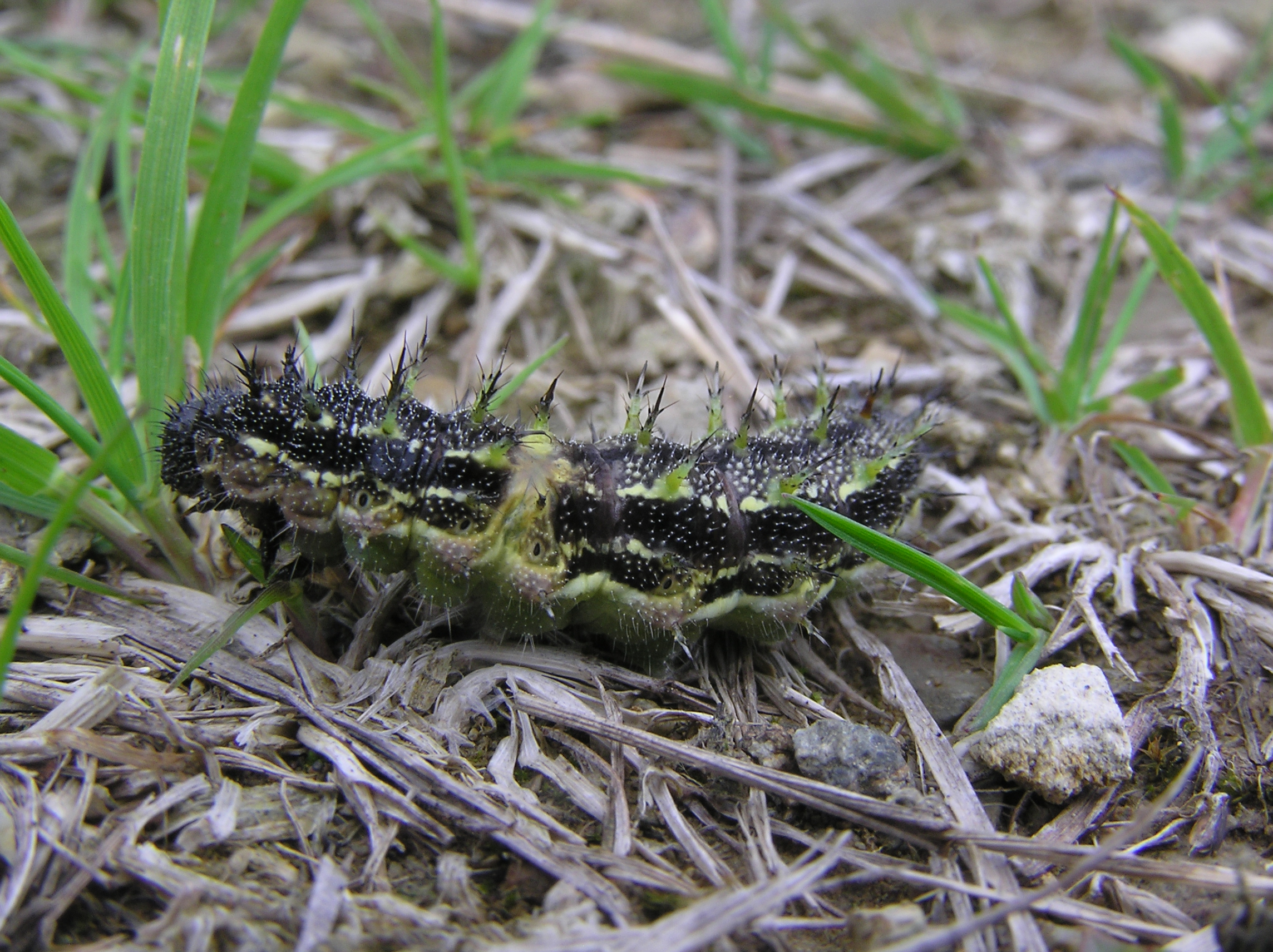 Red Admiral Butterfly caterpillar closeup (this specimen has an apparent old injury). Wellington, New Zealand.